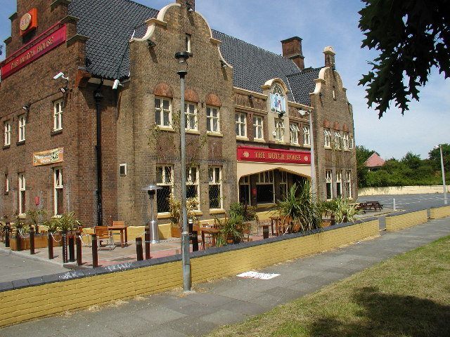 The Dutch House. Presumably named after its gable ends, The Dutch House was once a busy stopping point on the A20 for motorcyclists. It's now a 'Beefeater'-style establishment